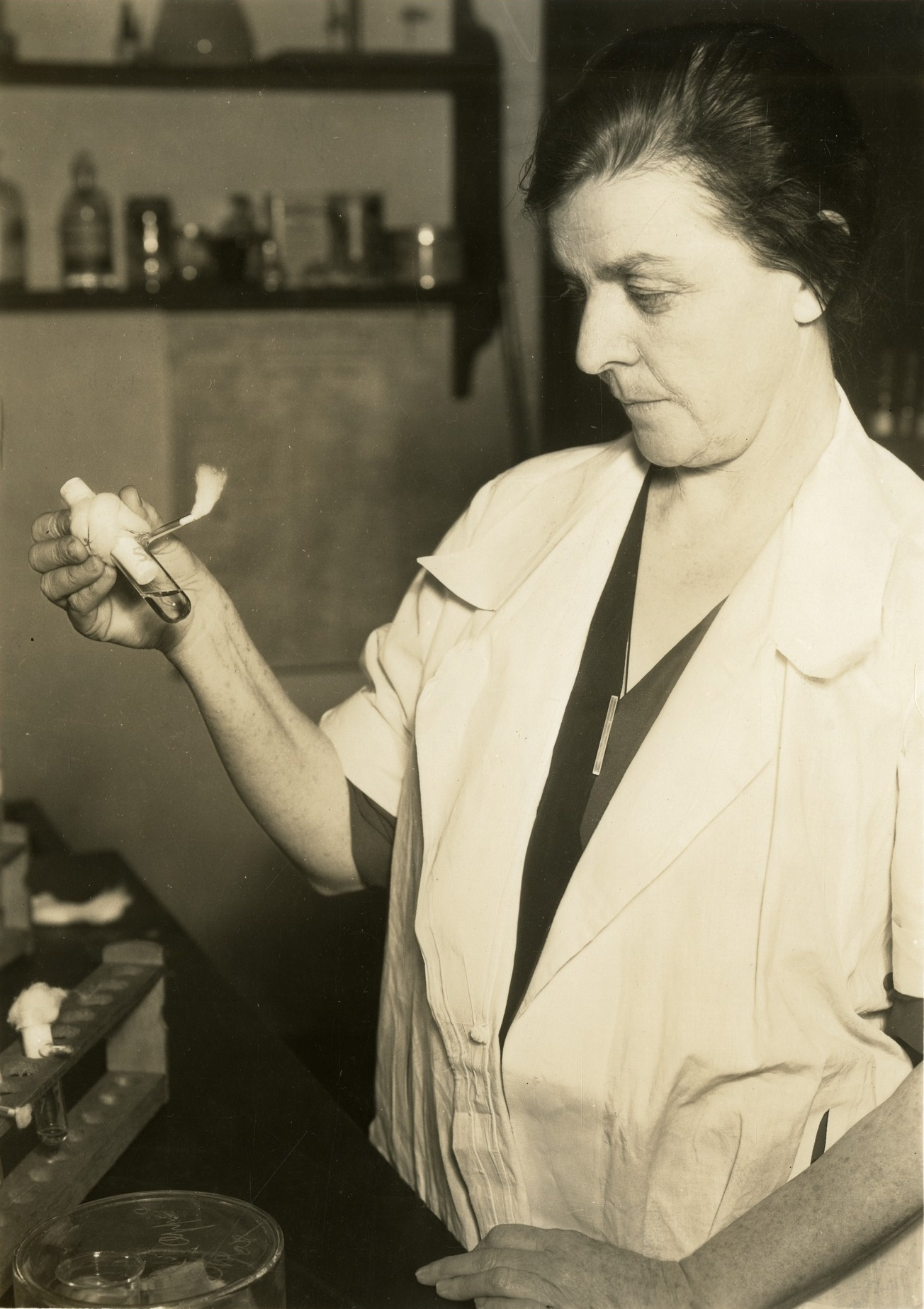 Agnes J. Quirk was a plant pathologist in the U.S. Department of Agriculture's Laboratory of Plant Pathology, where she worked on crown gall disease